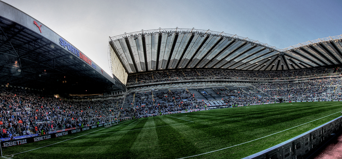 If you wish to use this image you can do so freely as long as you give credit to me for the picture by linking to my site